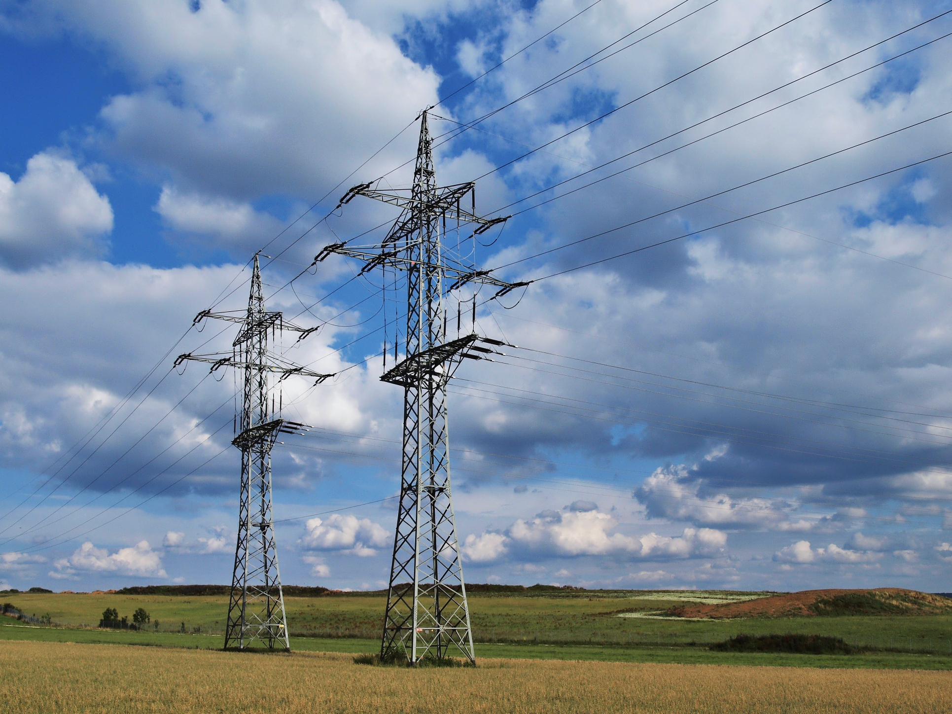 Tap point on a 110 kV power line in Schwäbisch Gmünd